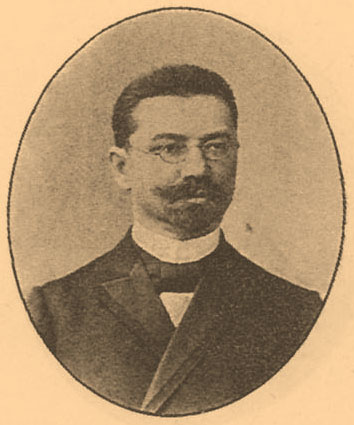 Illustration from Brockhaus and Efron Encyclopedic Dictionary (1890—1907)